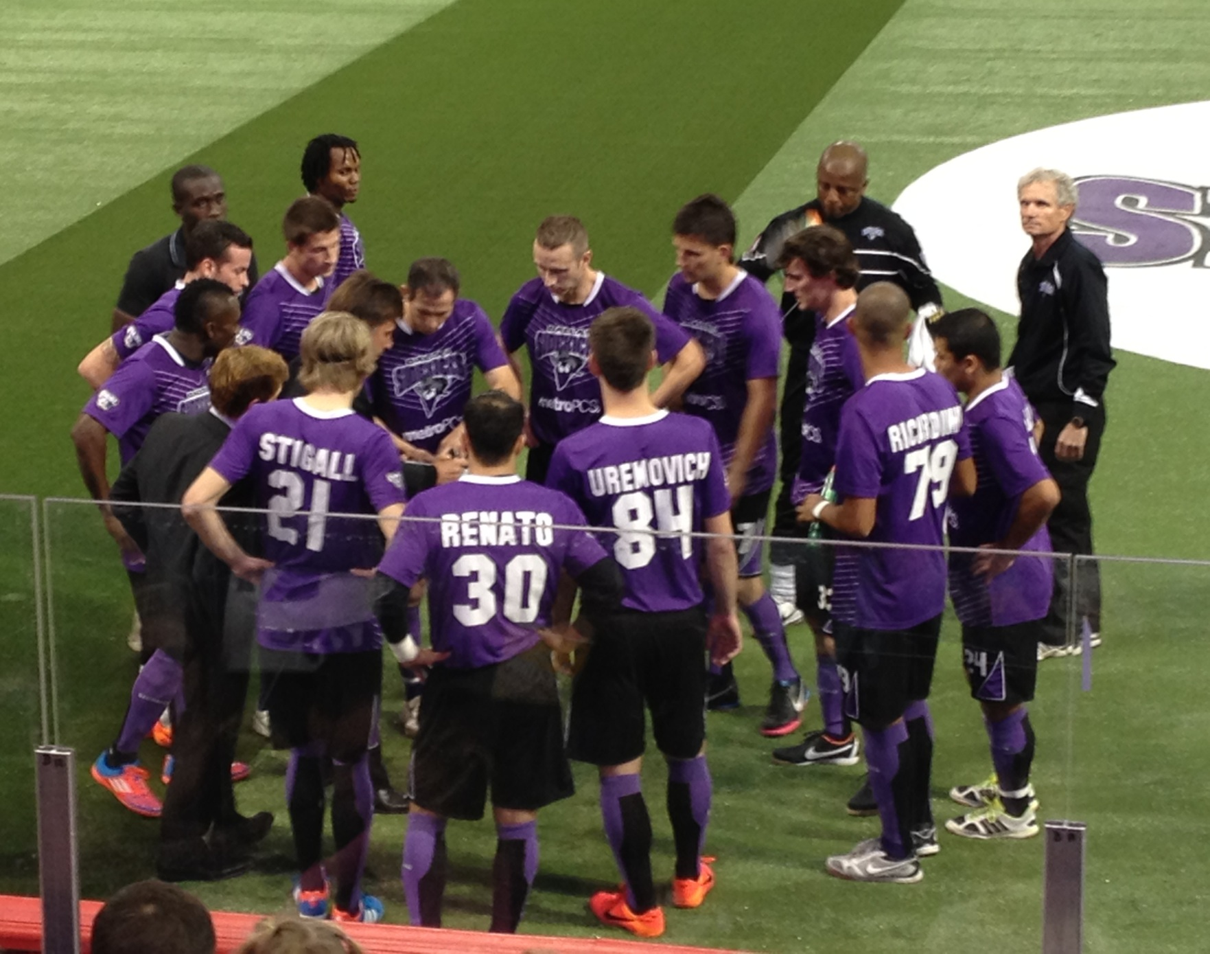 Tatu Pecorari coaching the new Dallas Sidekicks during their match against the Rio Grande Valley Flash on November 30, 2012, at the Allen Event Center in Allen, Texas.